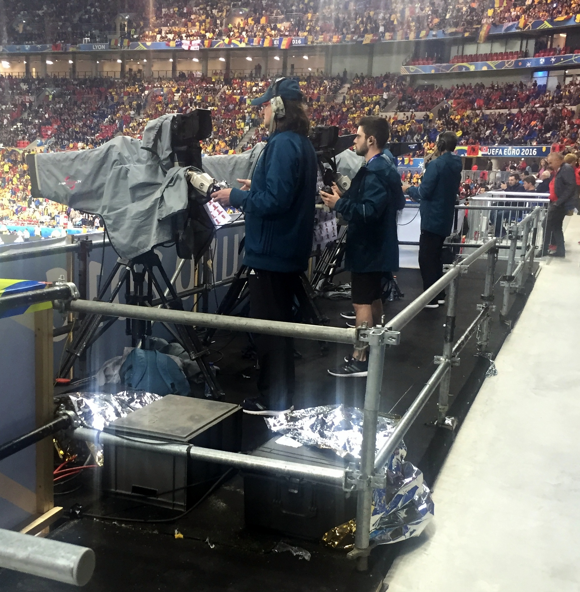 Romania-Albania (2016-06-19)